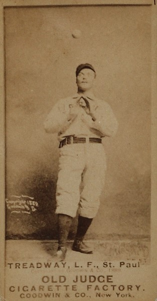 1889 Old Judge baseball card of George Treadway